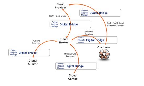 An example of a fabric below that shows a cloud broker and its interactions with other parties engaged in the fabric.